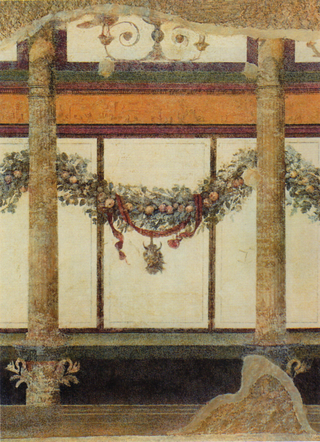 Roman fresco, House of Augustus (Villa of Livia), Palatine Hill